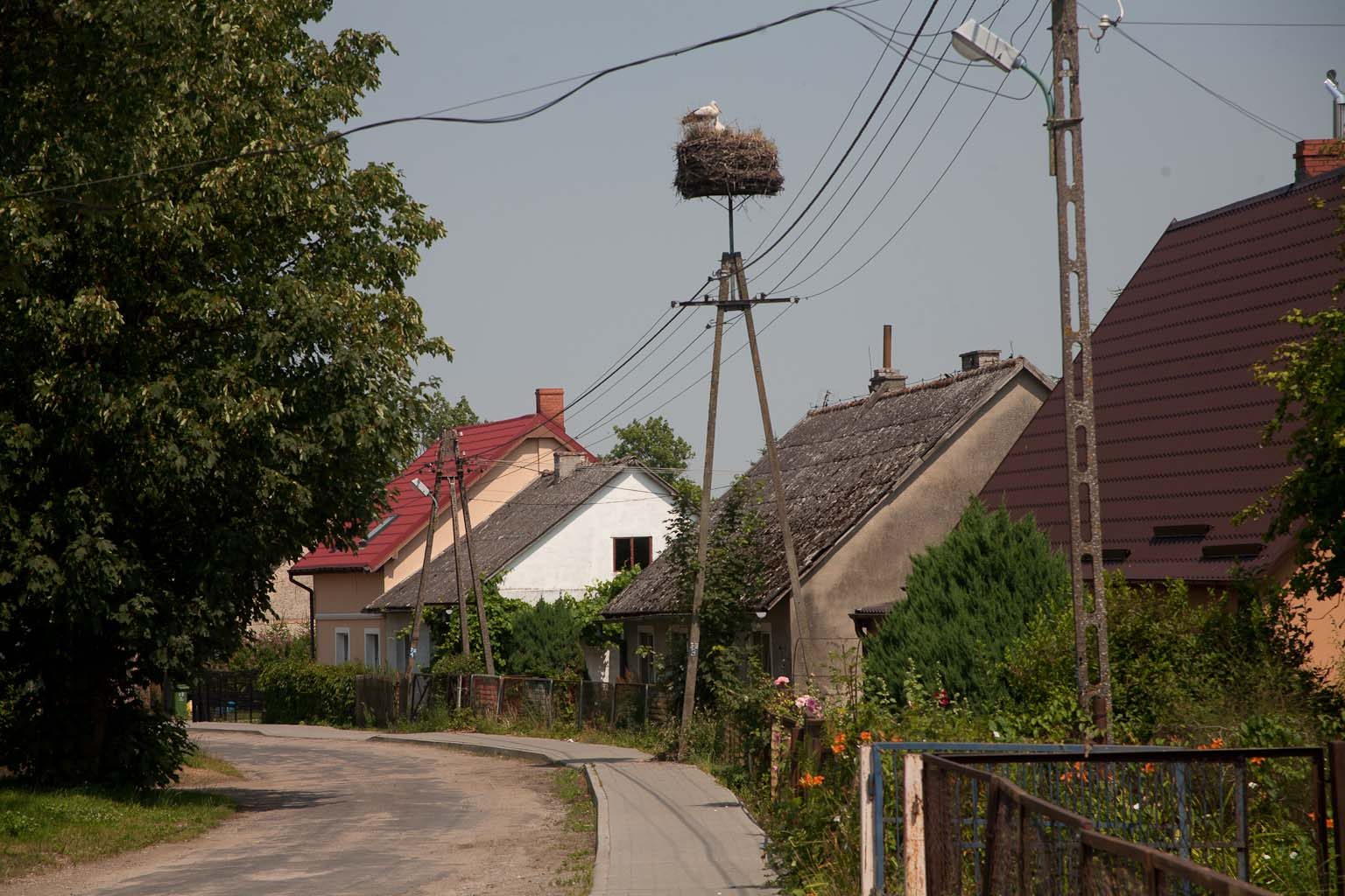 Stork nest in Ramlewo, Poland